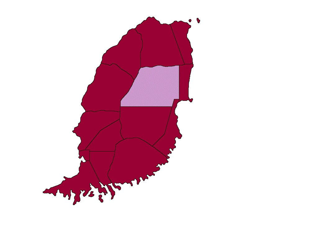 map